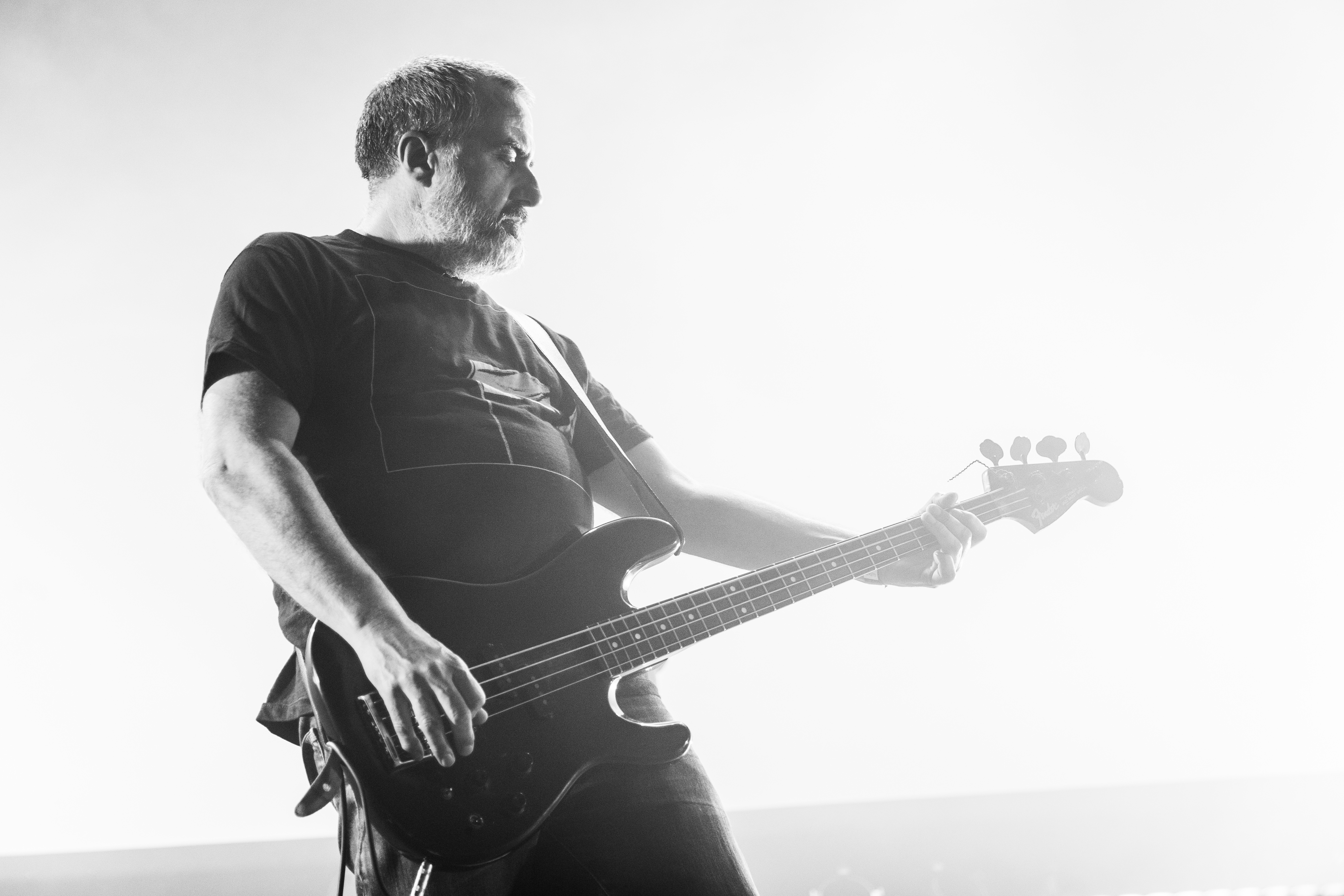 Godflesh performing live at Roadburn Festival 2018